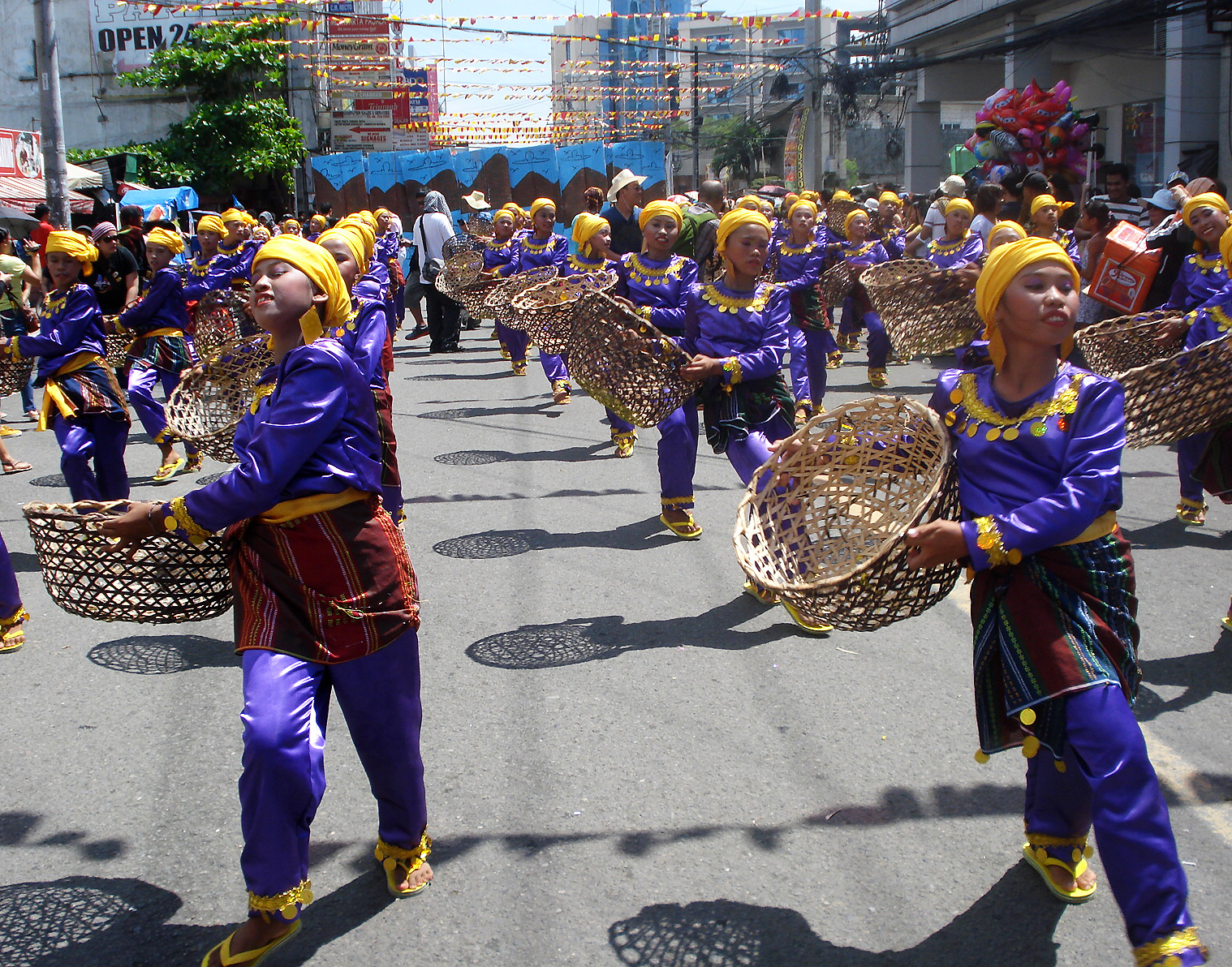 Street dancing competition, part of Kadayawan Festival celebration.